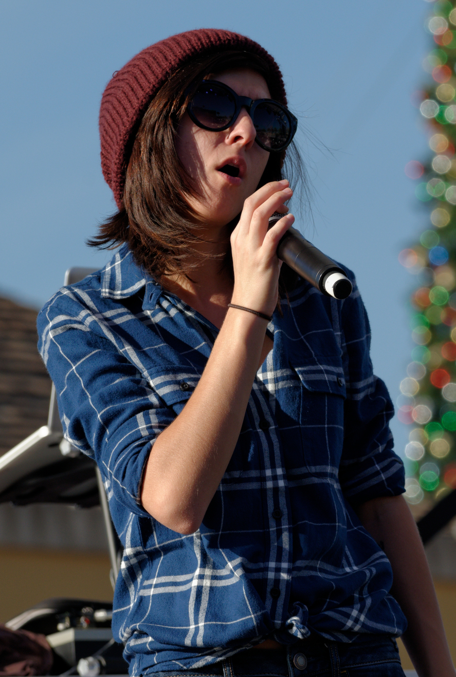 Christina Grimmie performing live at the Citadel Outlets 13th Annual Tree Lighting concert in Los Angeles California on Saturday November 8th, 2014. Presented by 97.1 FM AMP Radio and Fox 11.